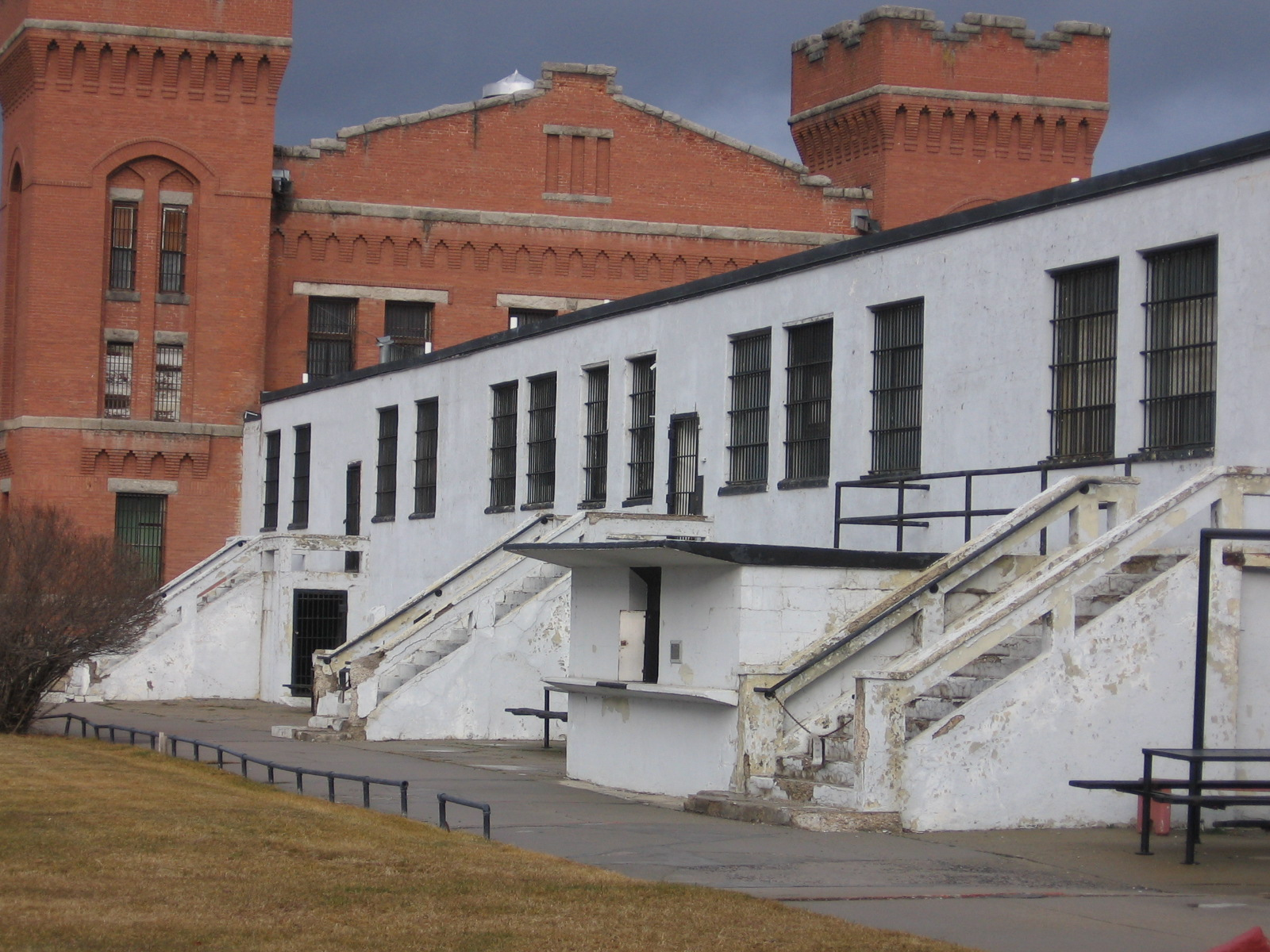 View of the Old Montana Prison 1932 Administration Building from the prison yard with Cellblock 1 in the background.